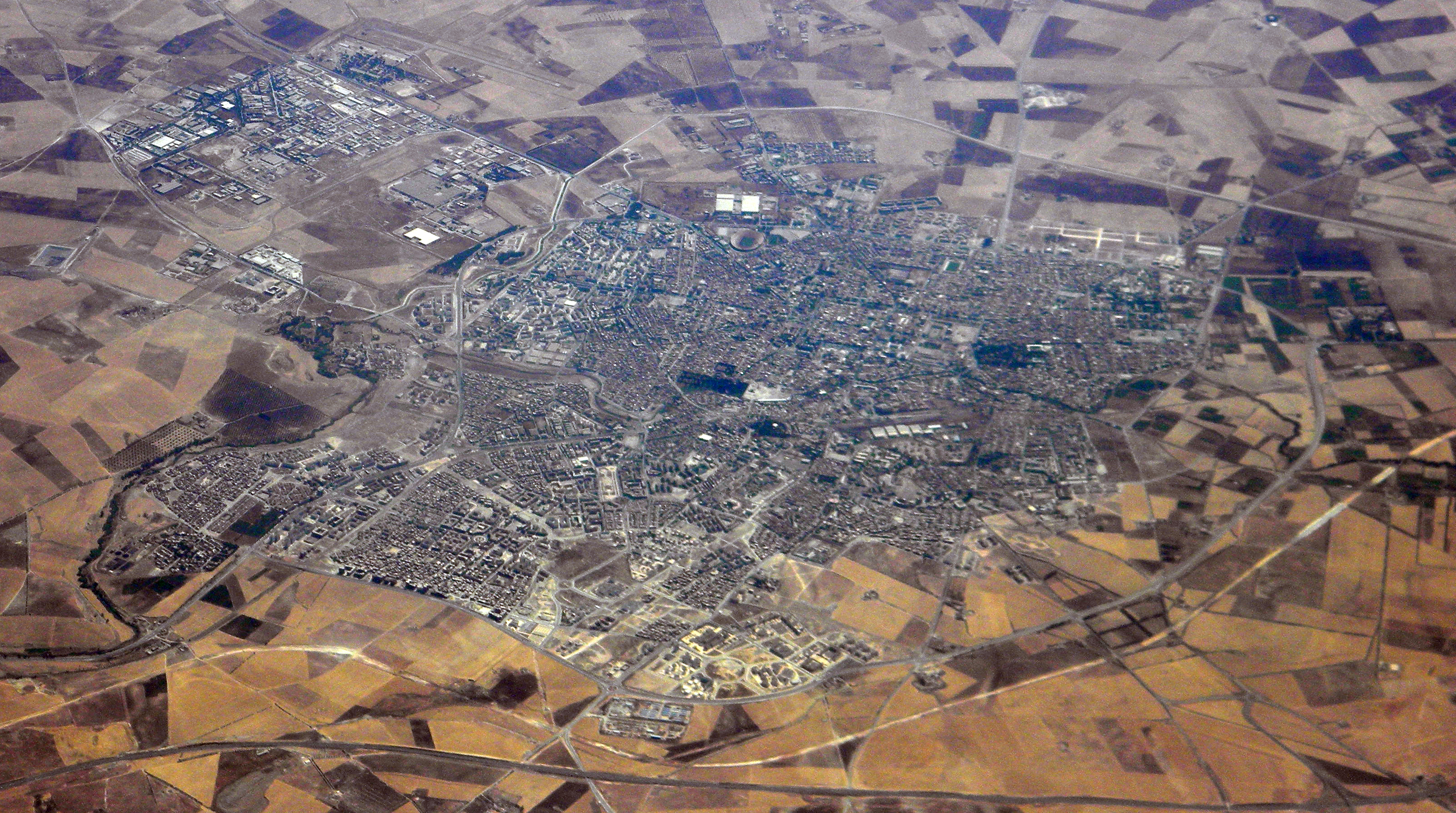 Aerial View of Sidi Bel Abbès City